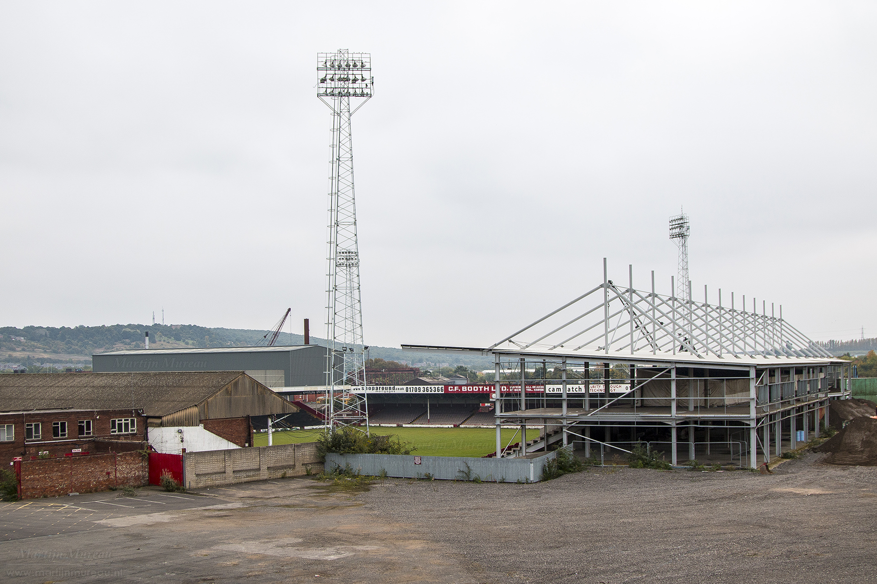 The stadium Millmoor in Rotherham. Former ground of Rotherham United FC and Rotherham County FC. Picture taken in 2015